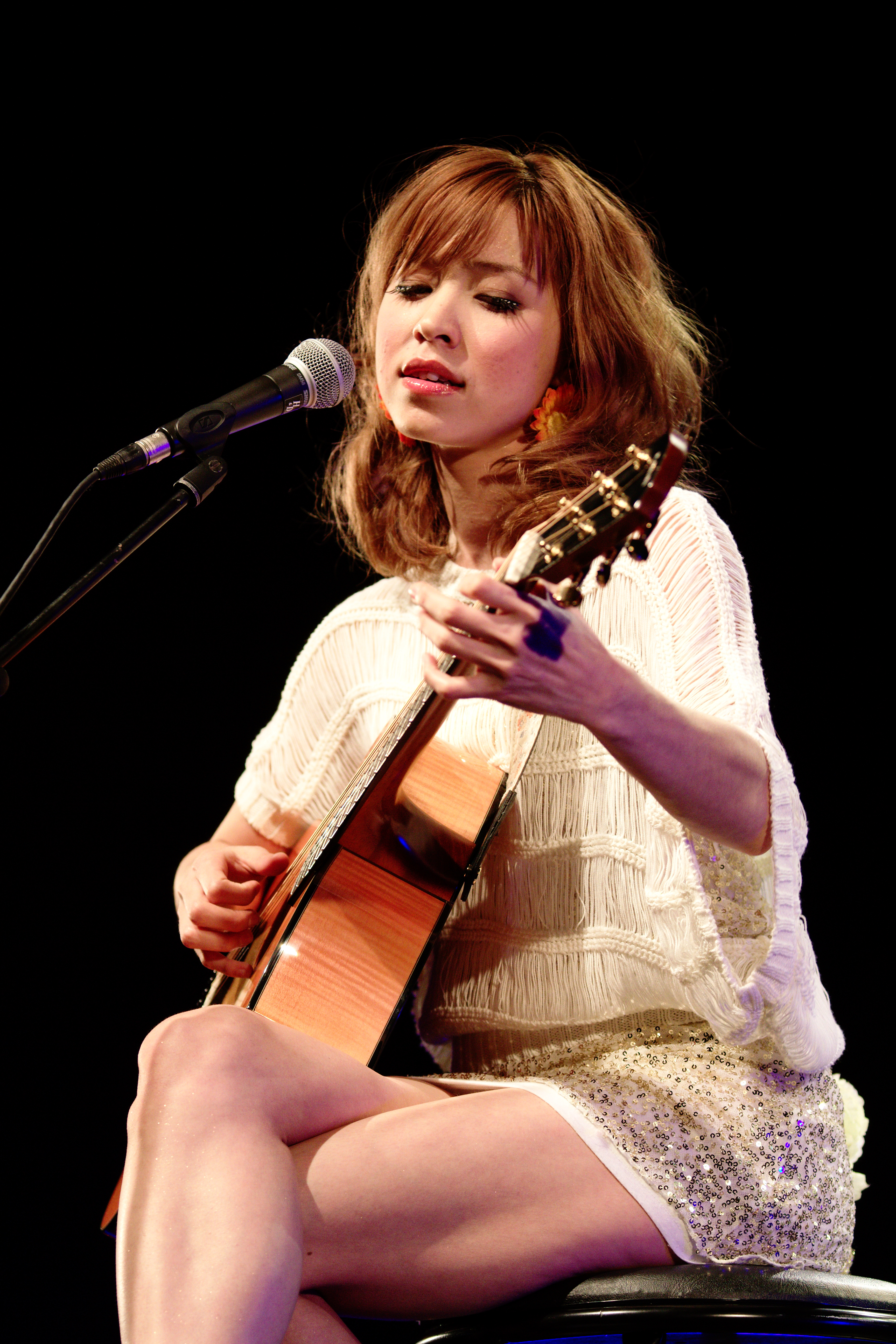 Shanti Snyder live at Japan Expo 2011 (Paris, France)